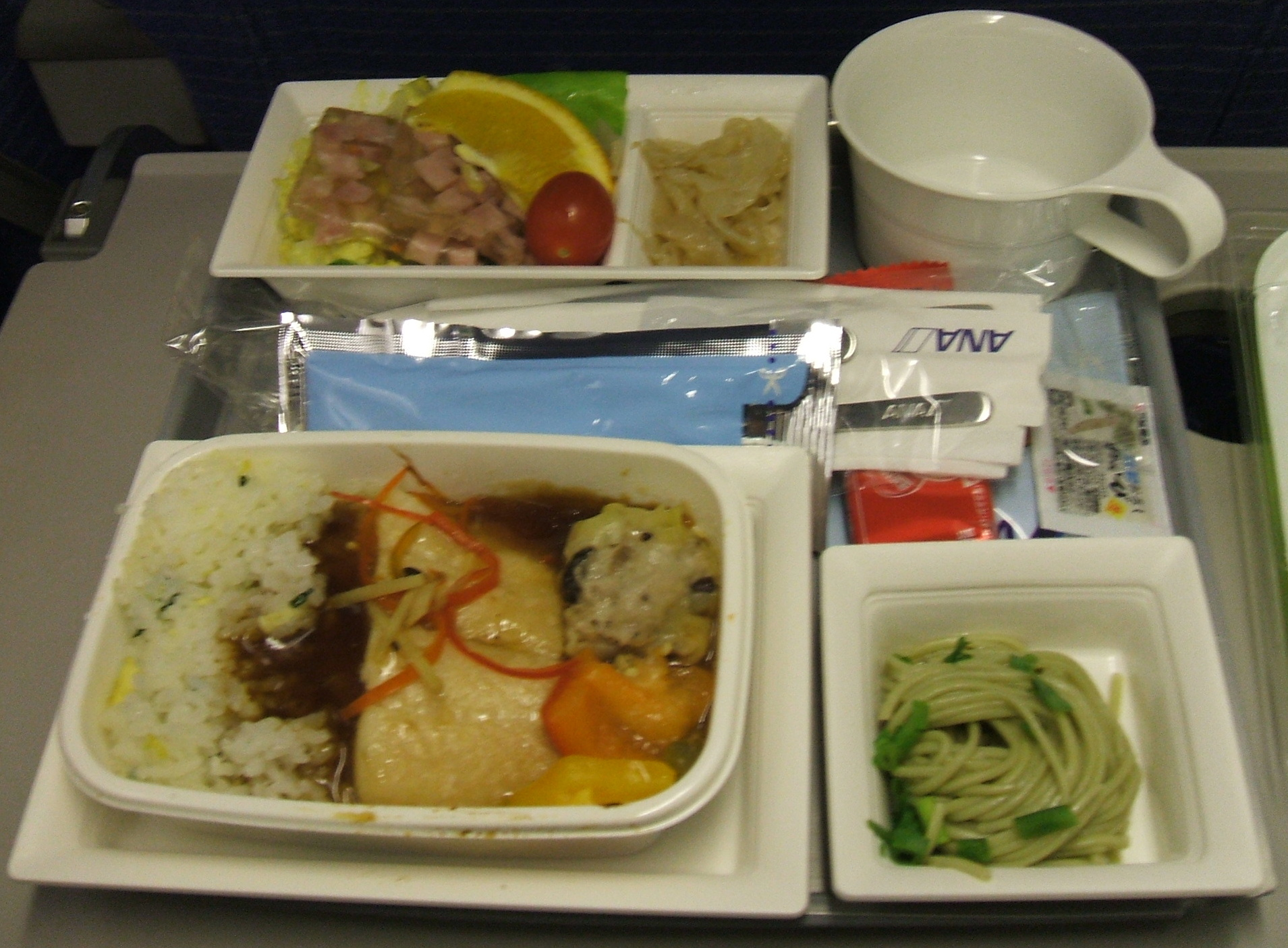 In-flight meal of ANA(Japan), Shanghai-Osaka(NH154) 02/11, 2007 全日空の機内食、上海-大阪 投稿者が撮影